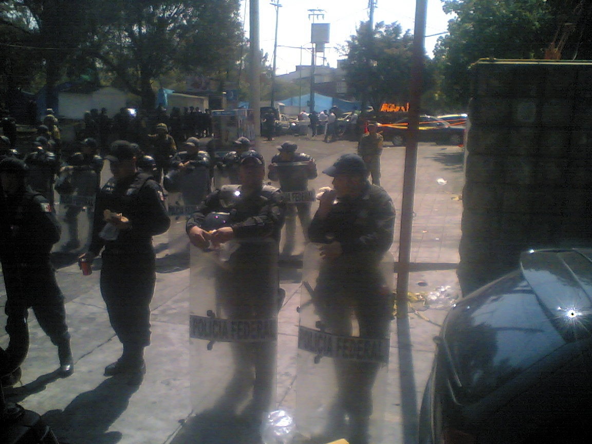 Police guard the crash site, the day after- burned cars in the background.